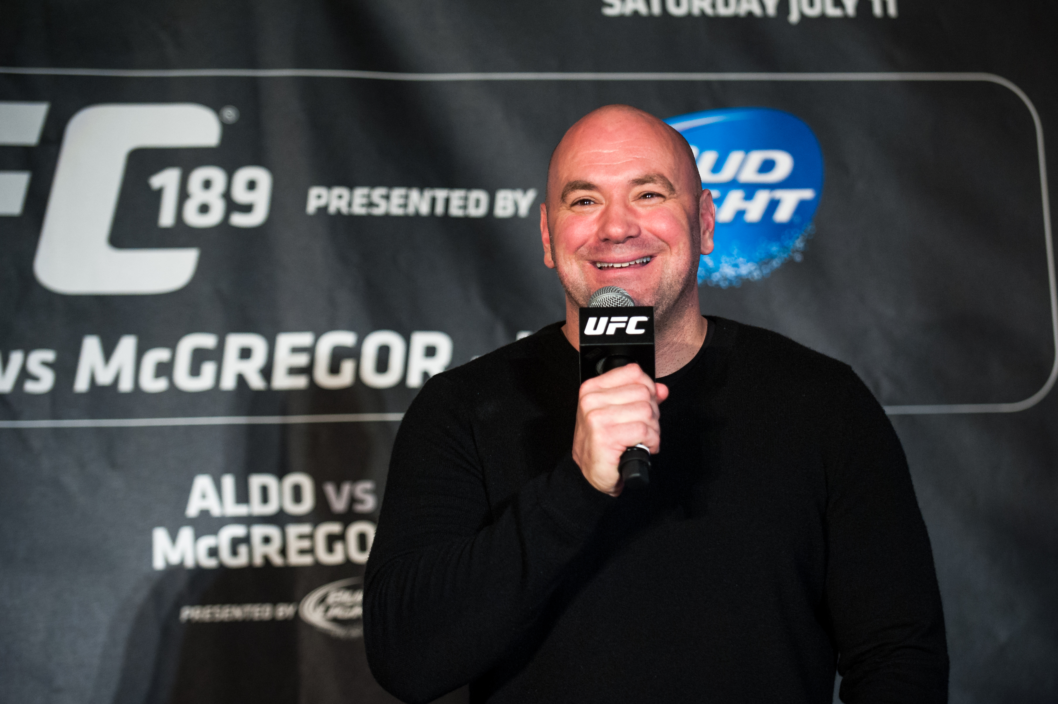 UFC 189 World Tour Aldo vs. McGregor London 2015